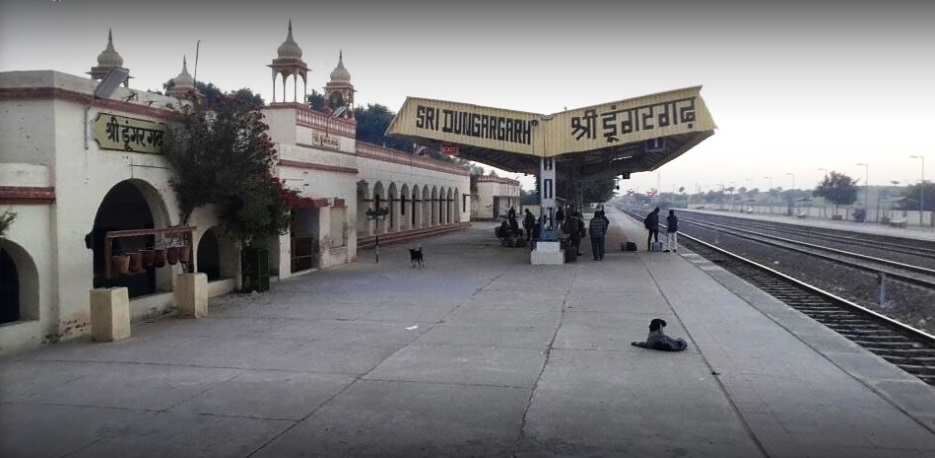 Sri Dungargarh Railway Station